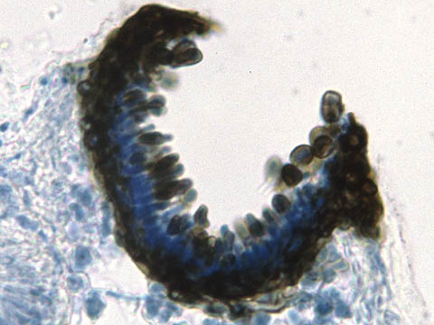 Lichenoconium reichlingii Diederich 1986: Pycnidium with dark brown conidia. This is a parasitic fungus that lives on lichens.